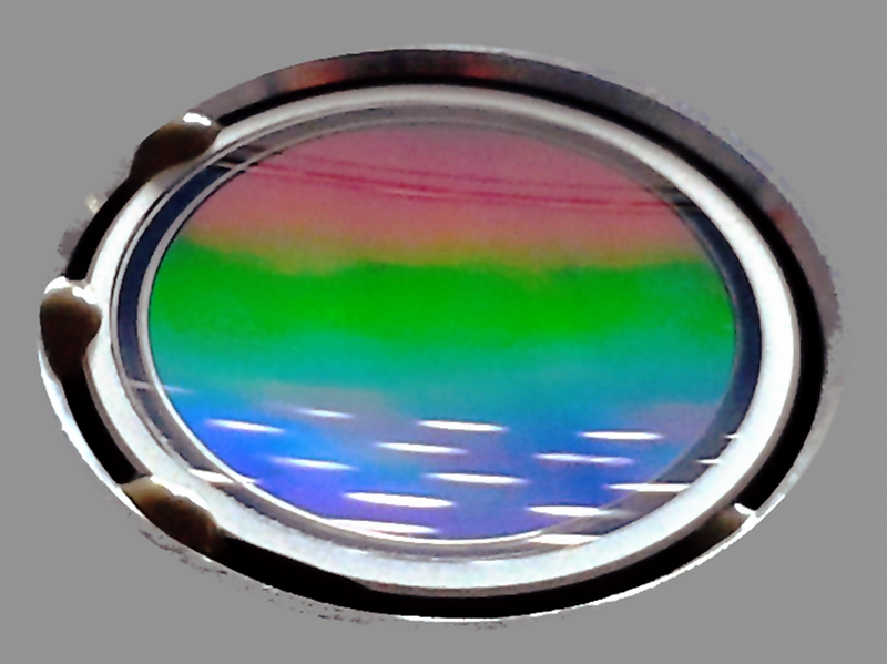 A reflective and focusing reflective diffraction grating used as light monochromator for optic UV and visible spectrophotometers.